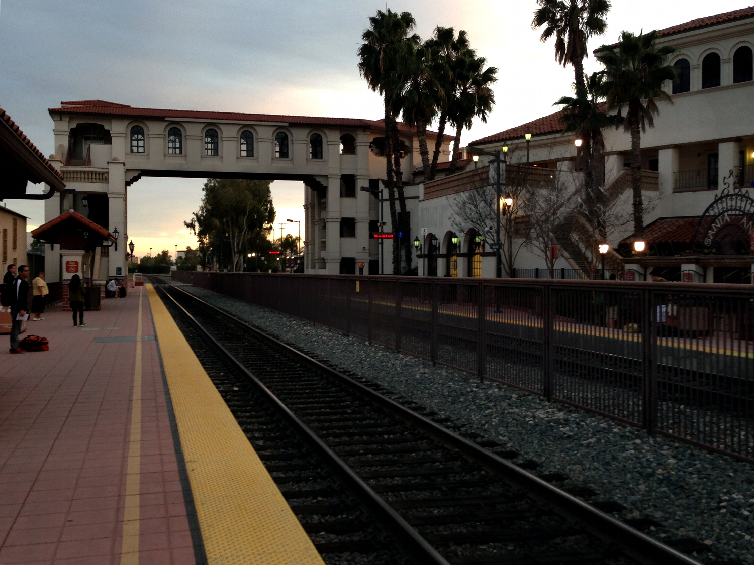 Pedestrian bridge linking northbound Track 1 to The Depot and Track 2 during Sunday twilight at the Santa Ana Regional Transportation Center.